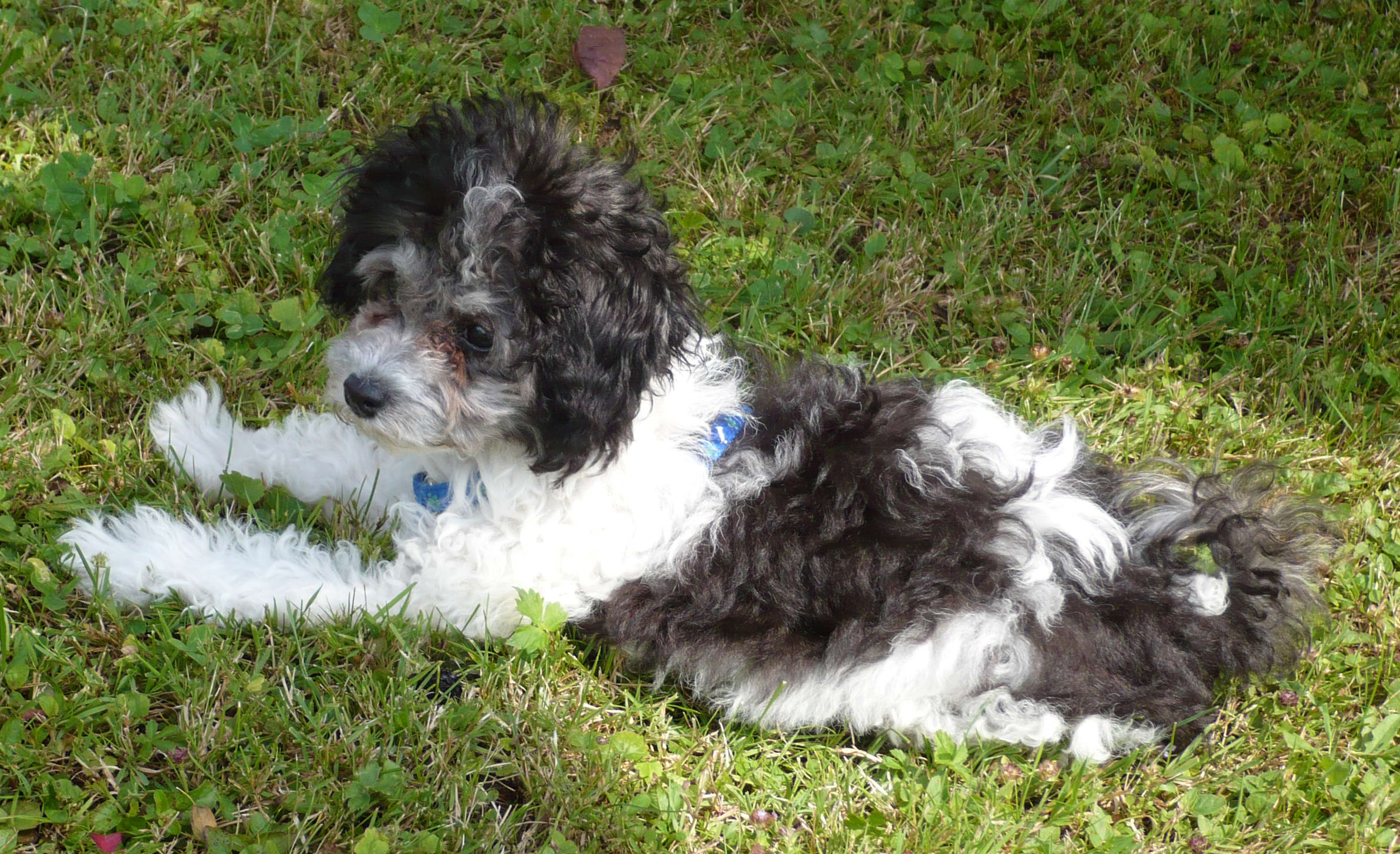 Bolonka Zwetna